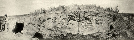 Mound B excavation at Double Ditch Indian Village site. Transcription: "Cross-section of Mound A, Burgois Village Site"--Printed on page underneath photograph. "Peabody Museum Papers Vol. III Pt. XXIX"--Printed on page above photograph.